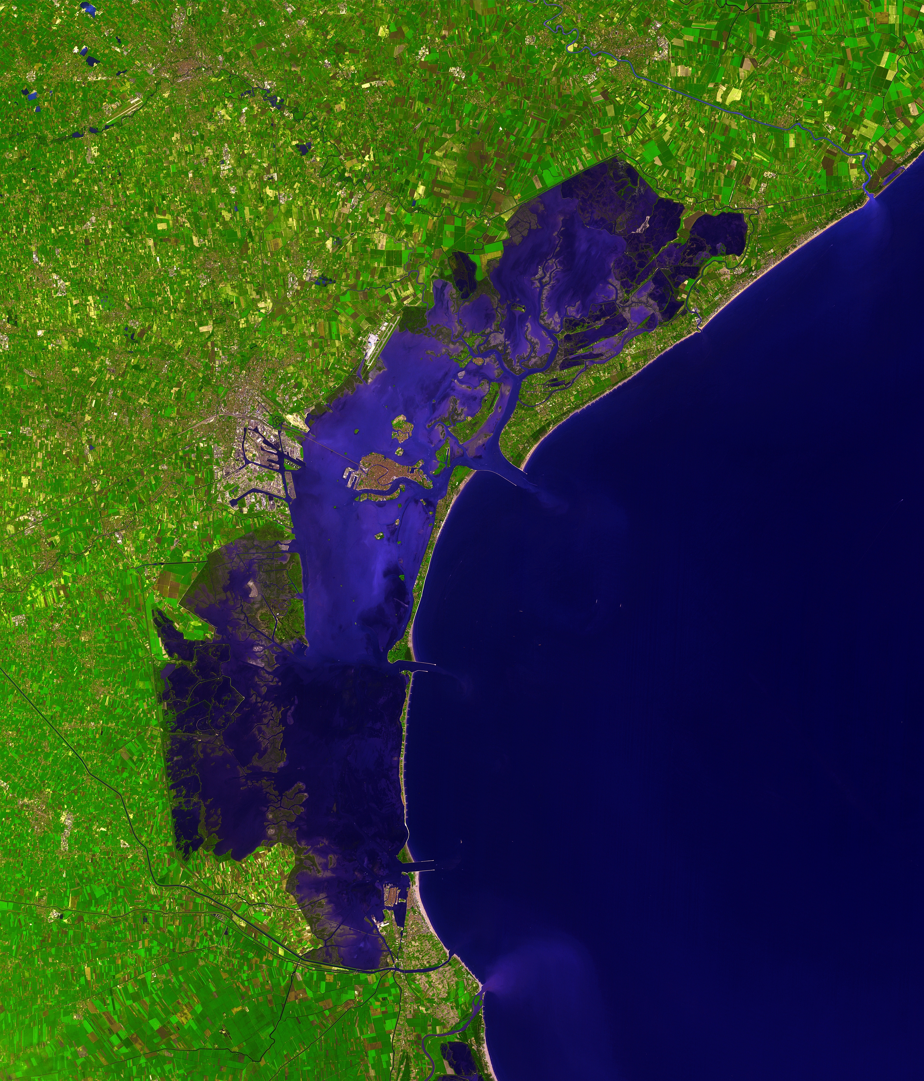 This picture of the Venetian Lagoon was taken by ASTER (Advanced Spaceborne Thermal Emission and Reflection Radiometer), an imaging instrument flying on Terra, a satellite part of NASA's Earth Observing System (EOS). It covers an area of 39 x 35 km and was acquired on December 9, 2001. (simulated natural color)